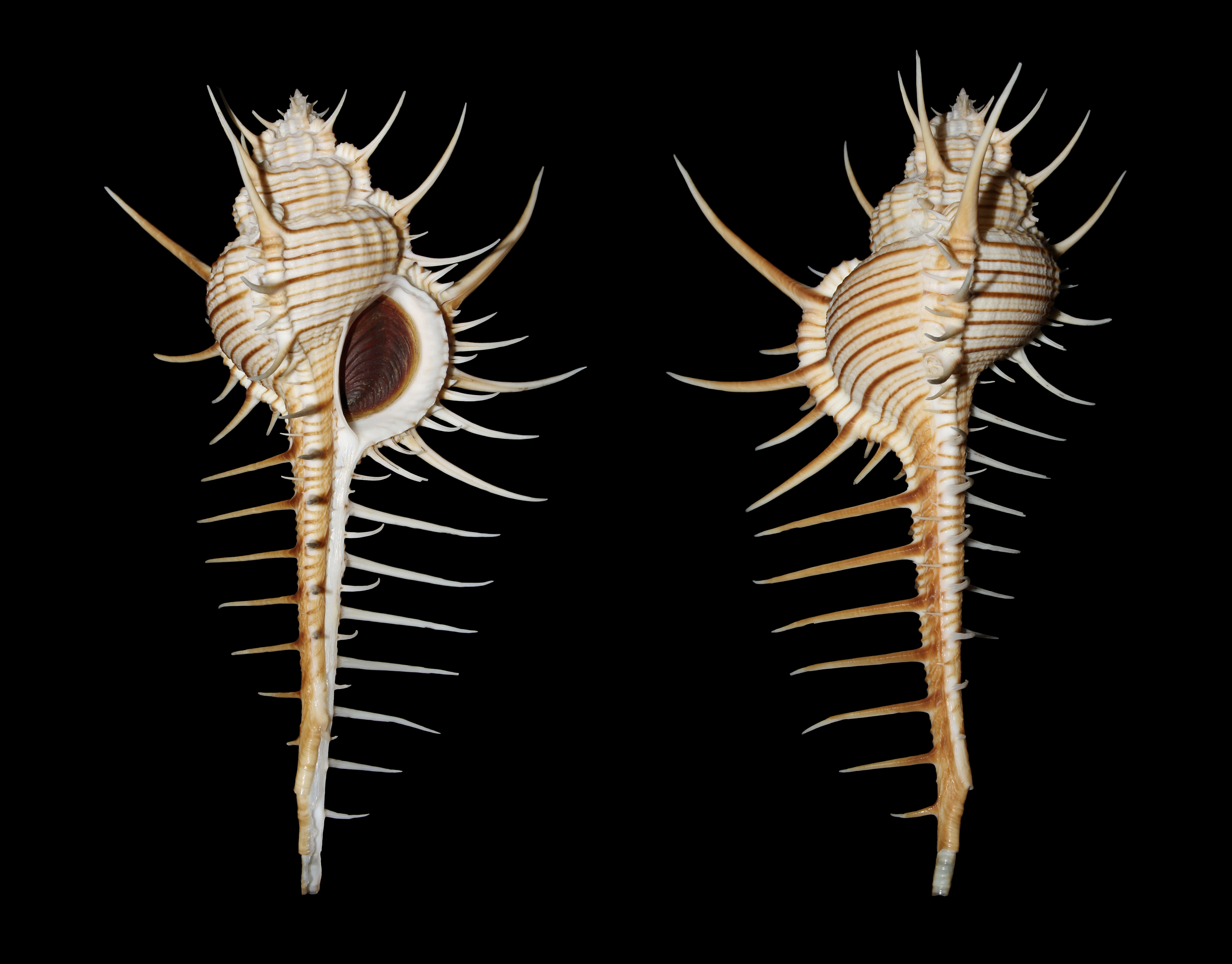 Murex troscheli Lischke, 1868. Locality: Zamboanga, Philippines. 147 mm. Caught in 1994.